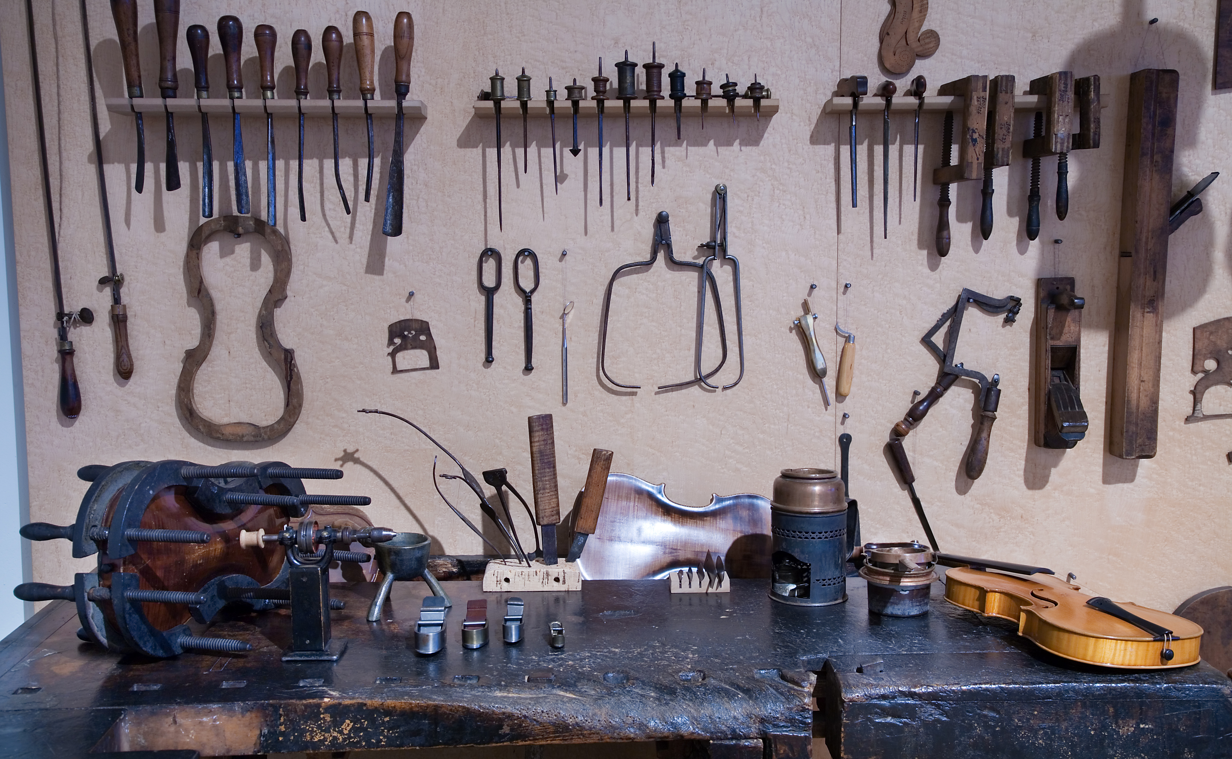 Violin repair workshop, Vienna, Austria